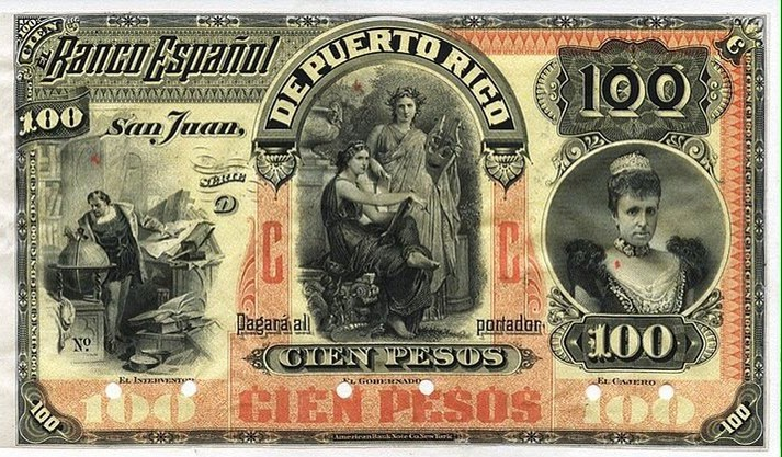 El Banco Español de la Isla de Puerto Rico, 100 pesos (1894)Engraved and printed by the American Bank Note Company, New York. Obverse: Portrait of Queen Mother and Regent of Spain Maria Cristina of Austria at right and Man with Globe and Map on the left , two allegorical women on center. Reverse: Coat of arms of Spain.